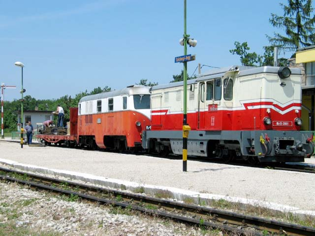 Mk45 and Mk49 Locomotives of the Széchenyi Mountain Children's Railway. The Mk49 locomotive has been lifted from its plinth, and is being moved for restoration to running order.